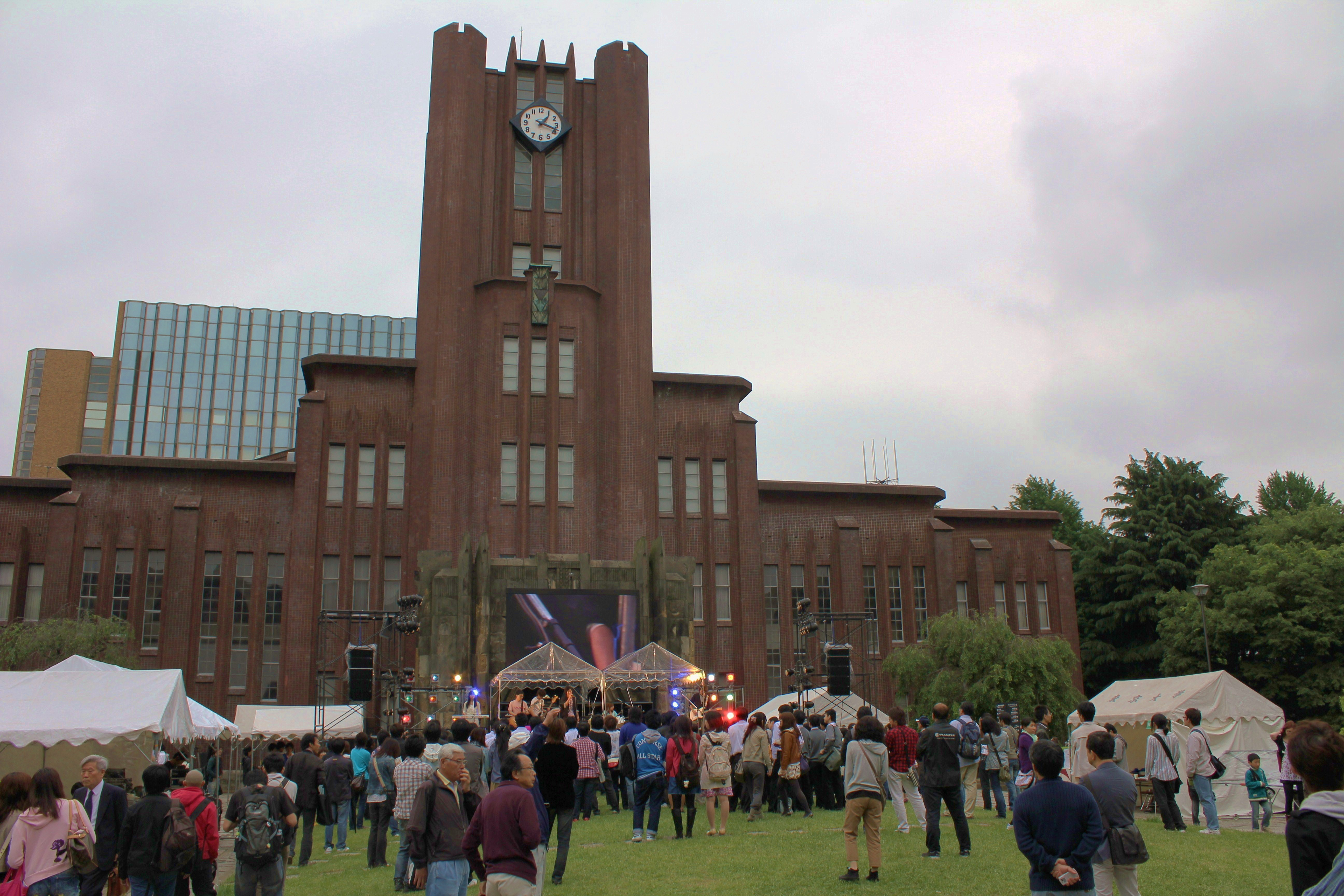 Gogetsusai, a festival held by the university of Tokyo on the Hongo campus